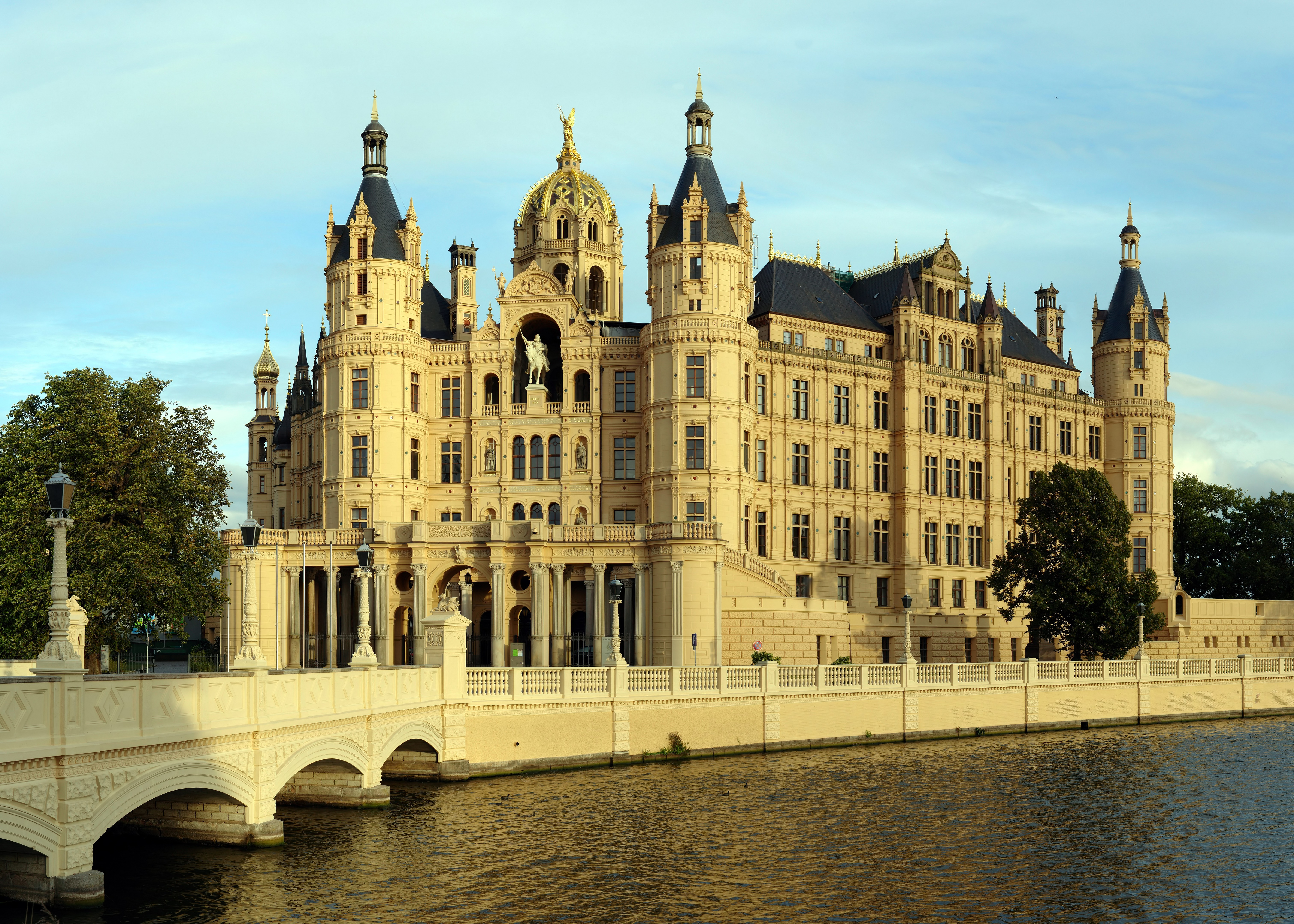 front aspect of Schwerin Castle, Germany